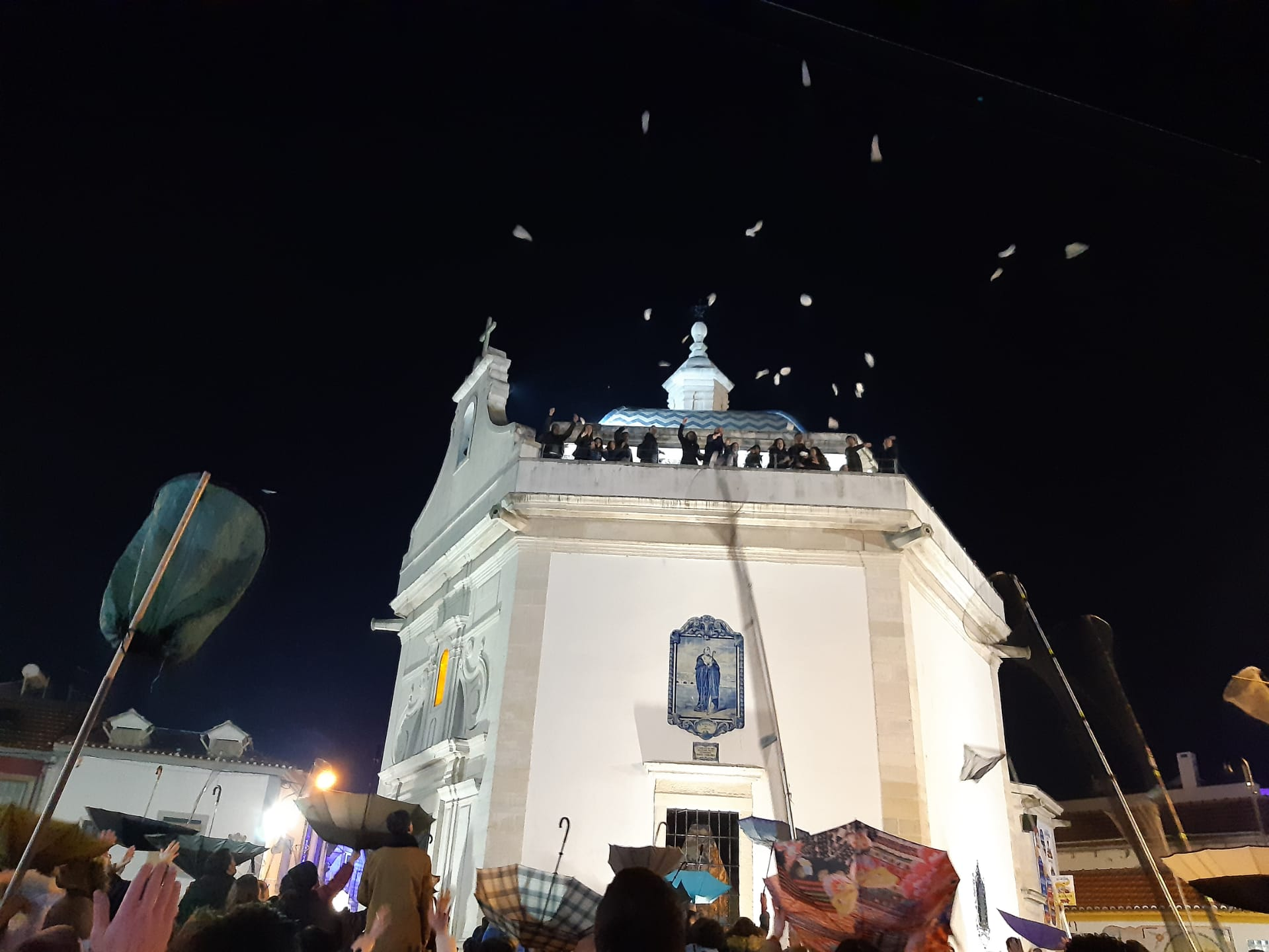 Saint Gundisalvus Celebration in Aveiro, Portugal.